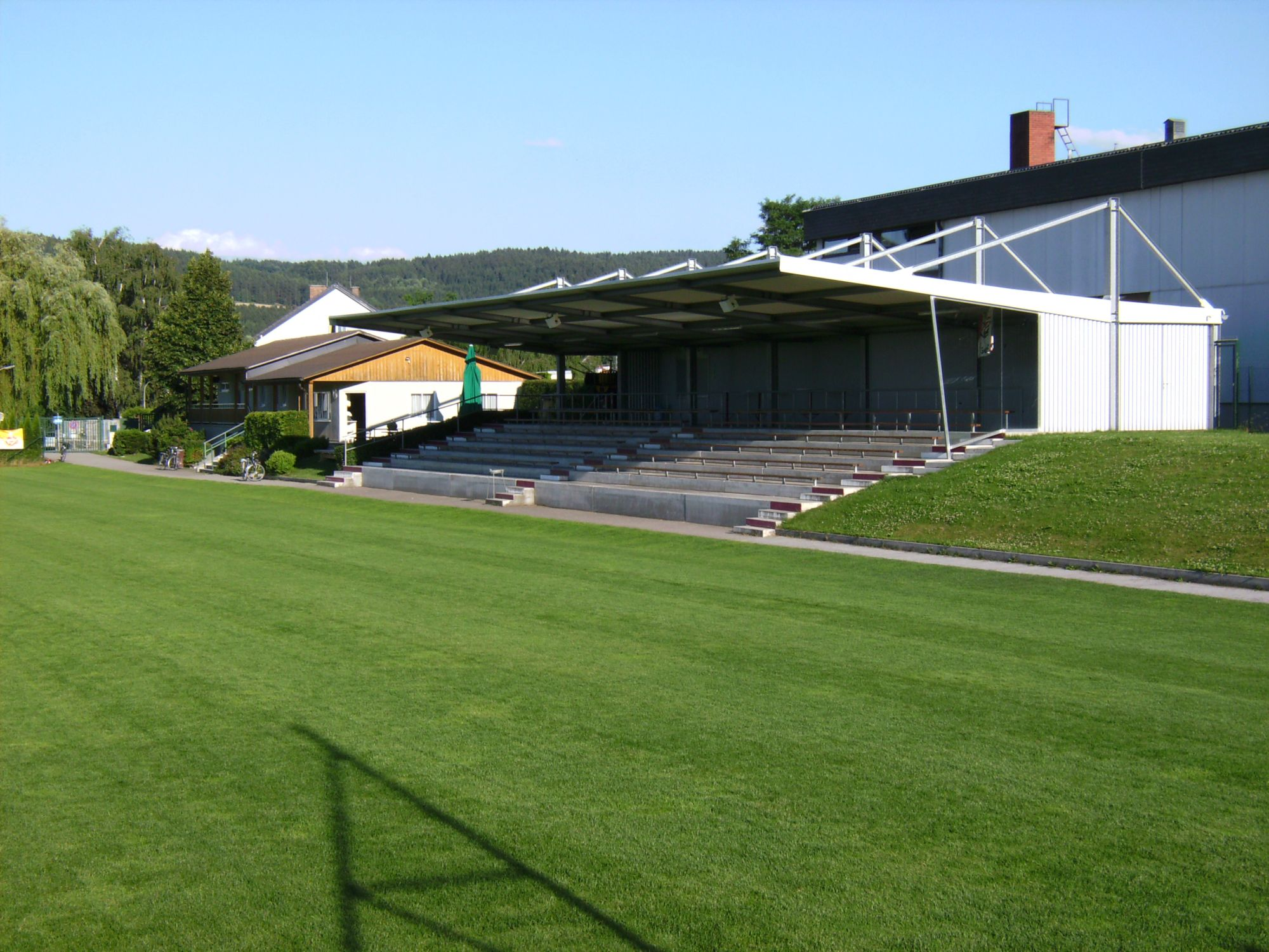 Football (soccer) Stadium SV Freistadt